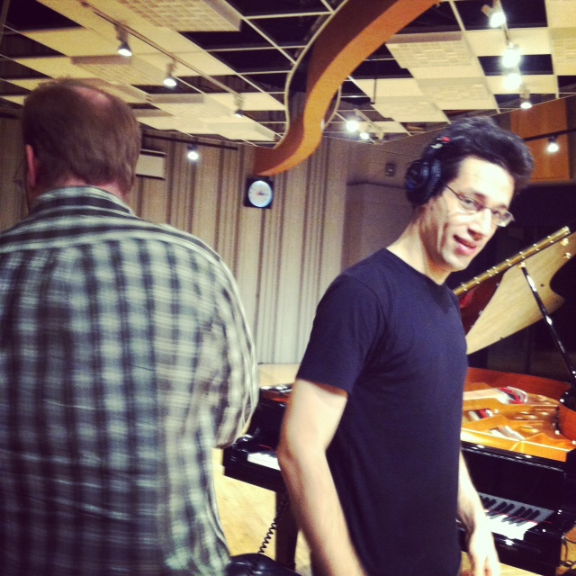 Jonathan Biss during the recording of his Coursera class